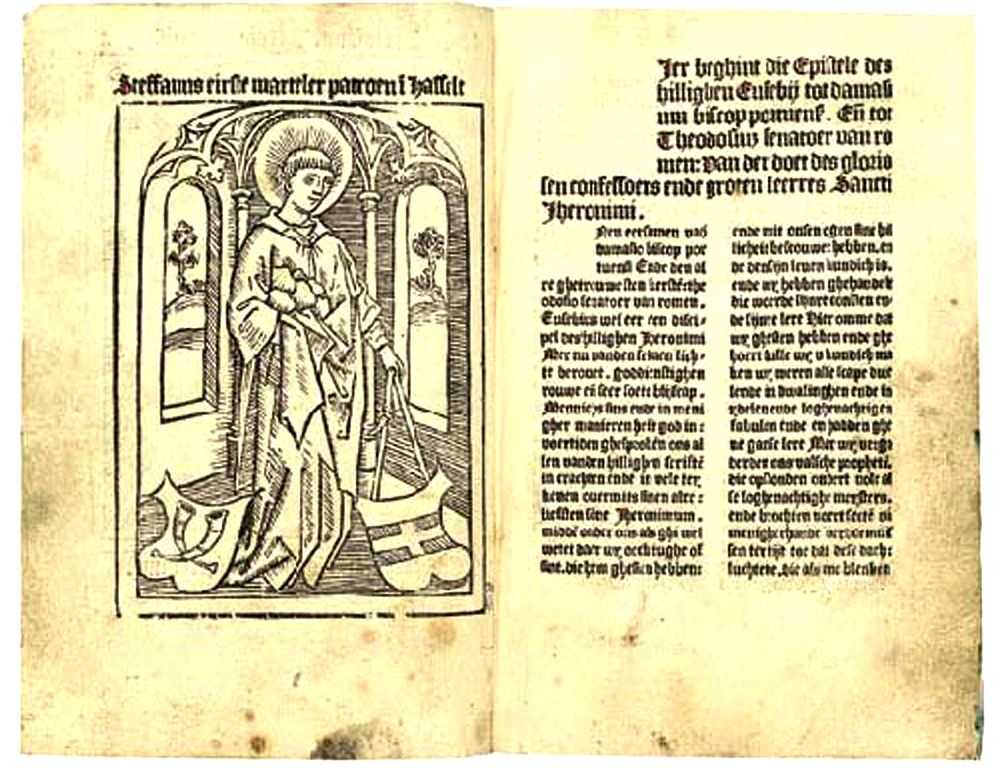 An incunable depicting the Saint Stephanus (1490).